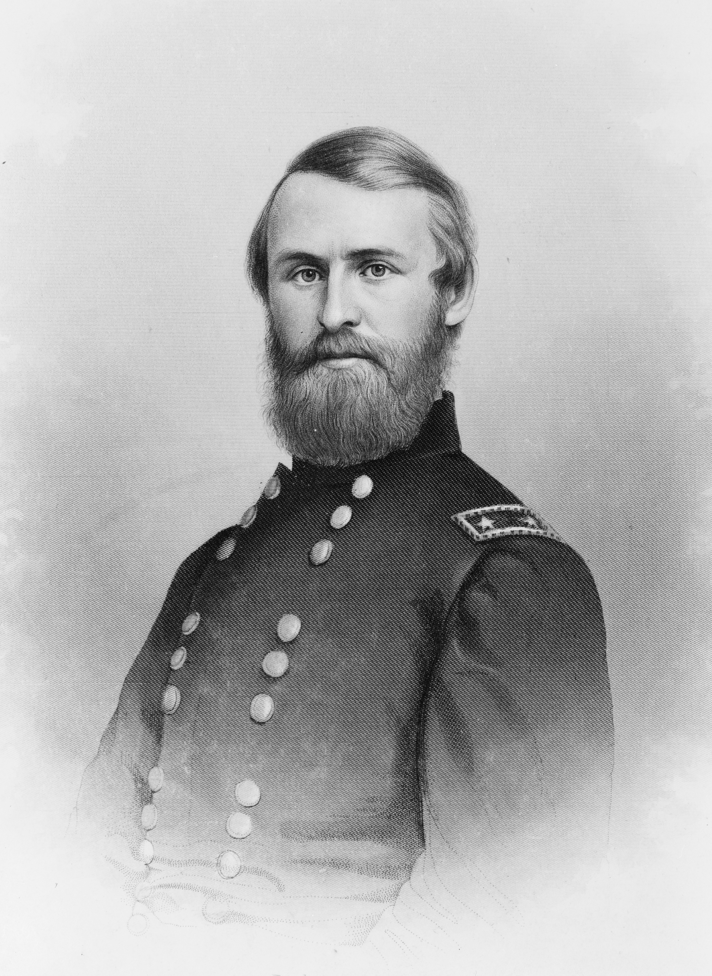 Maj. Gen. J.D. Cox. Jacob Dolson Cox, half-length portrait, facing slightly left.